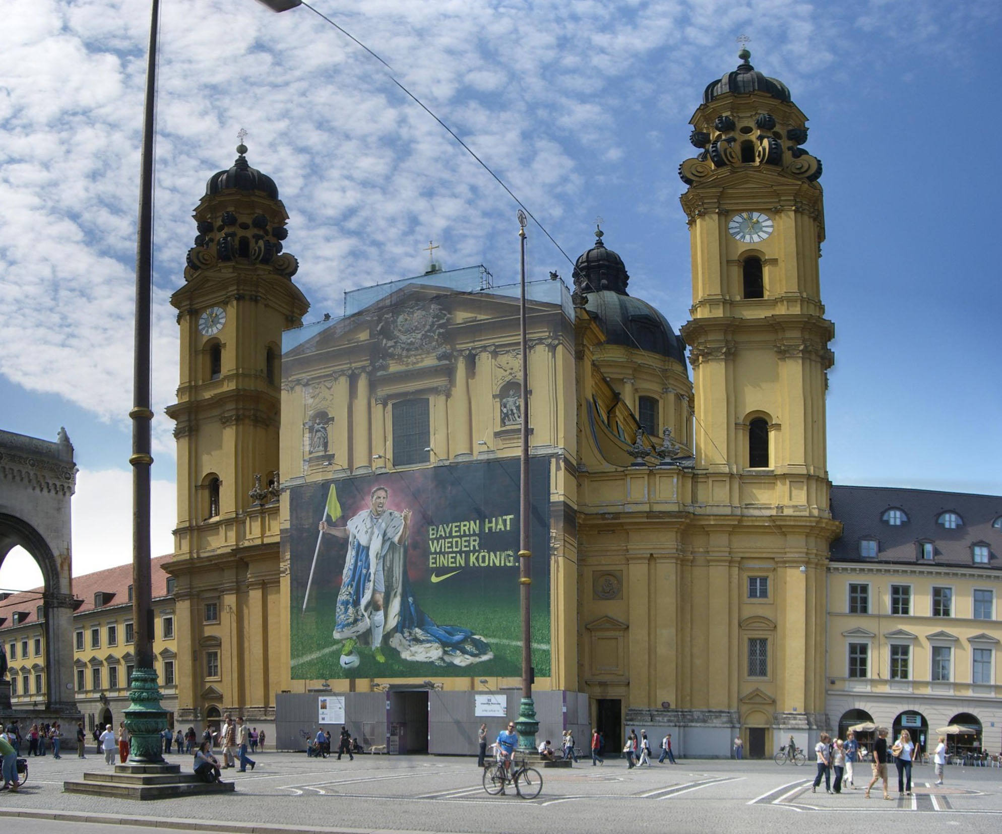 Poster representing the french soccer player Frank Ribéry on the Theatinerkirche façade, slogan "Bavaria has a king again"